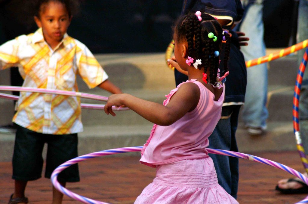 Children Hula Hooping at Tastefest in Detroit.